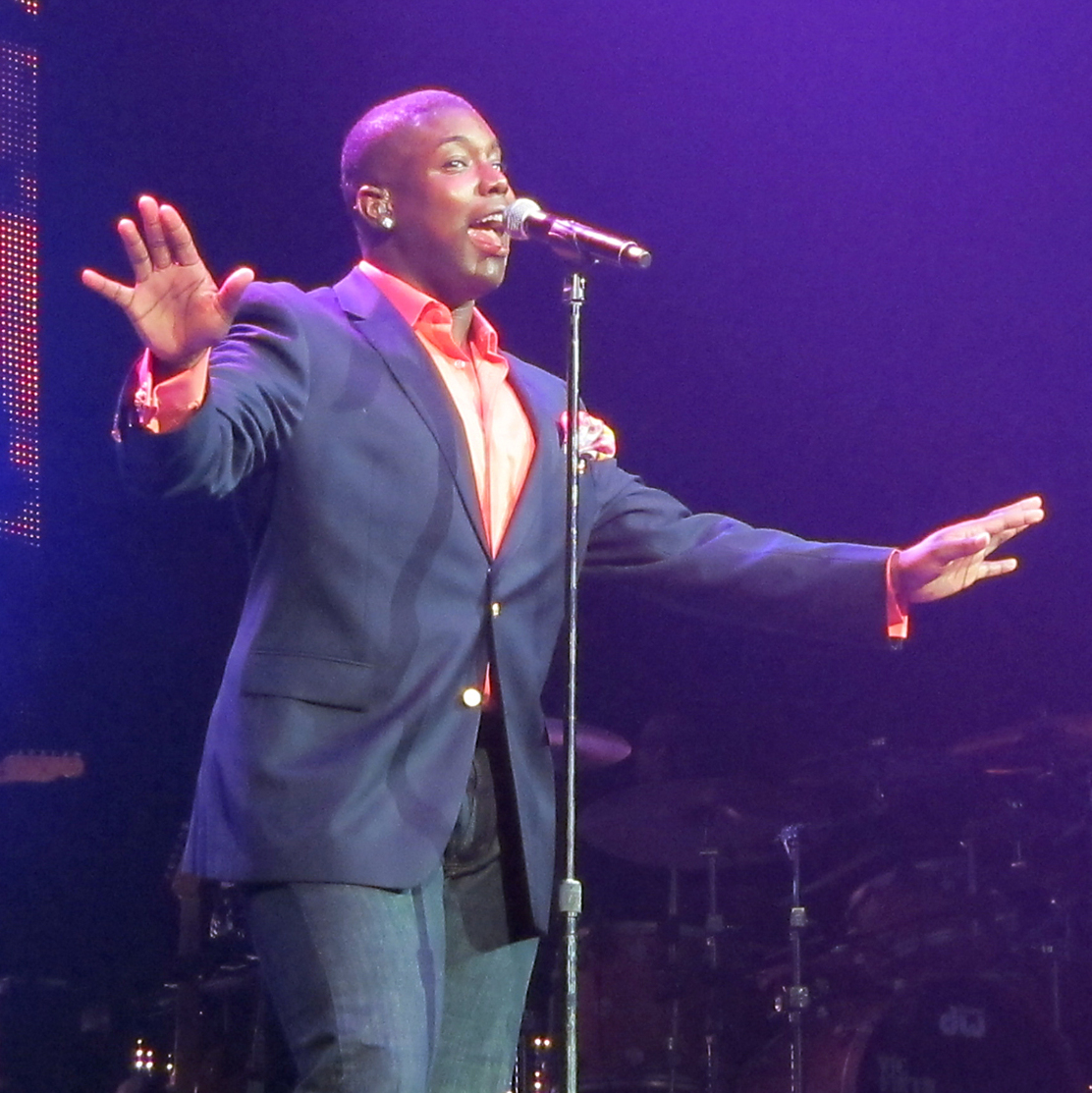 Jacob Lusk performing.